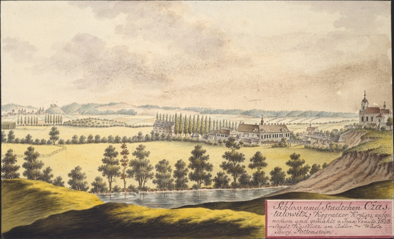 Častolovice. Schloss und Staedtchen Czastalowitz, Kggraetzer Kreises, aufgenommen und gemahlt v. J. Venuto 1813.